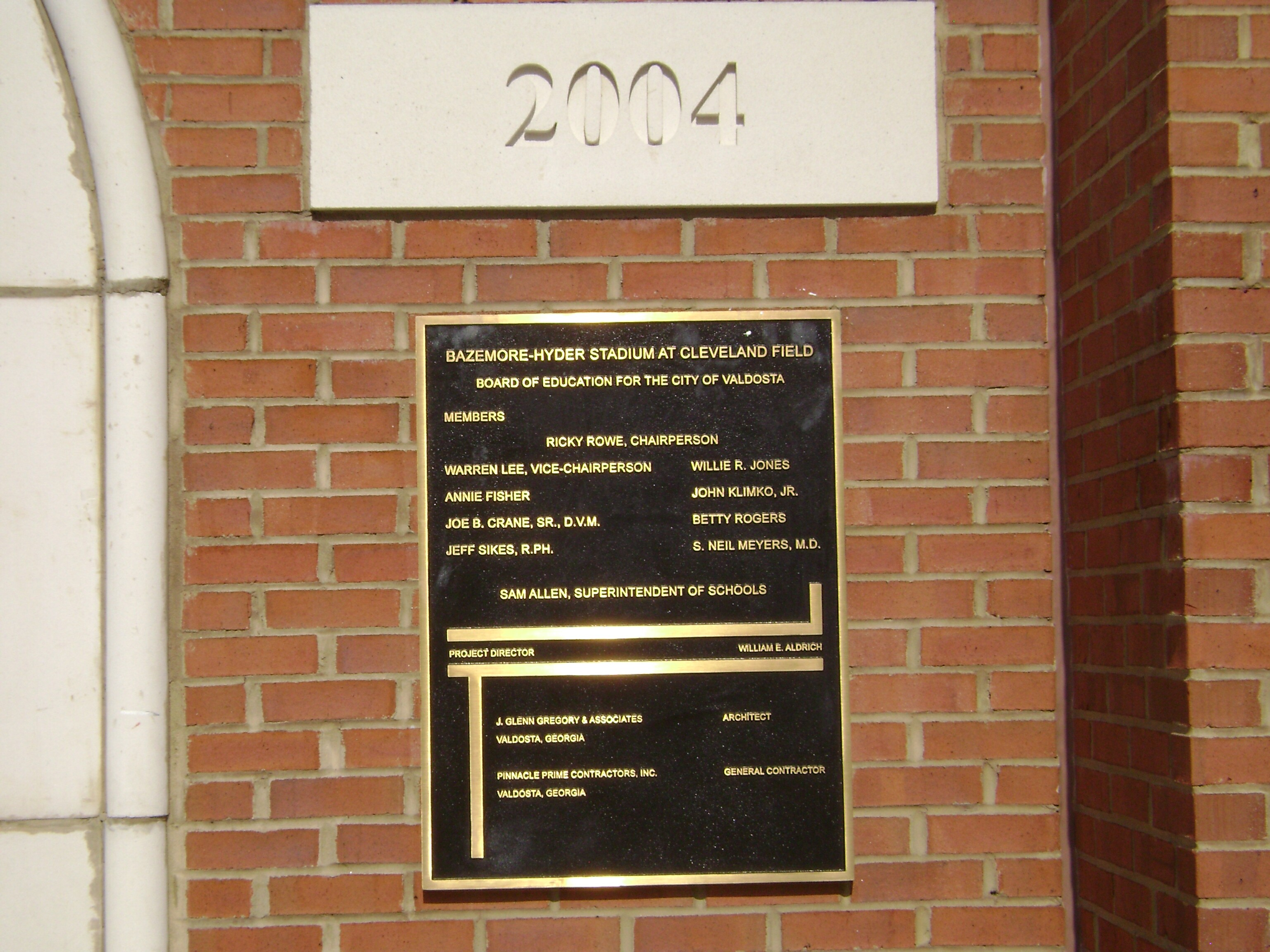 Bazemore–Hyder Stadium in Valdosta, Lowndes County, Georgia